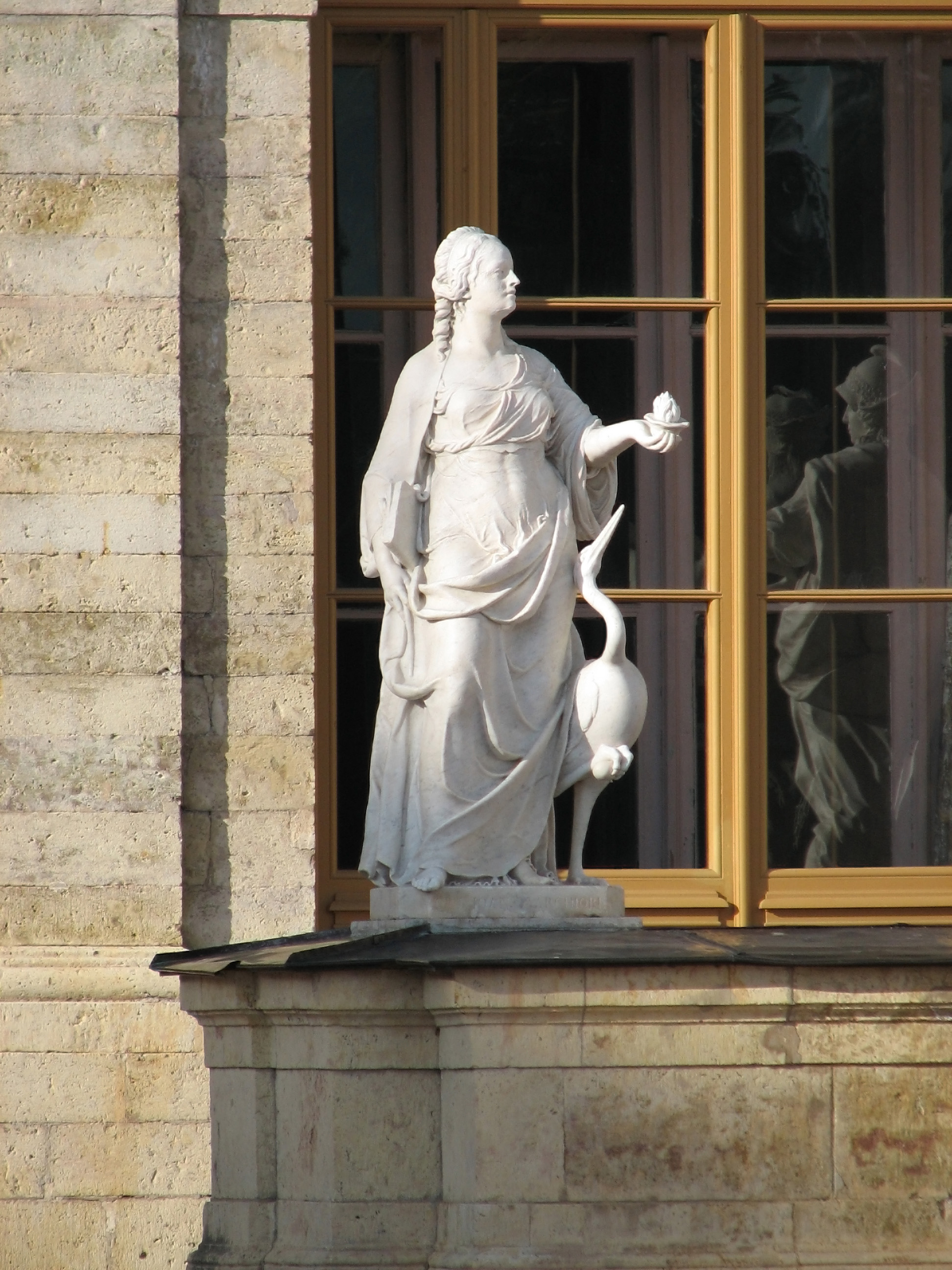 Statue "Bditelnost'" ("Vigilance") near the Gatchina Palace in Gatchina